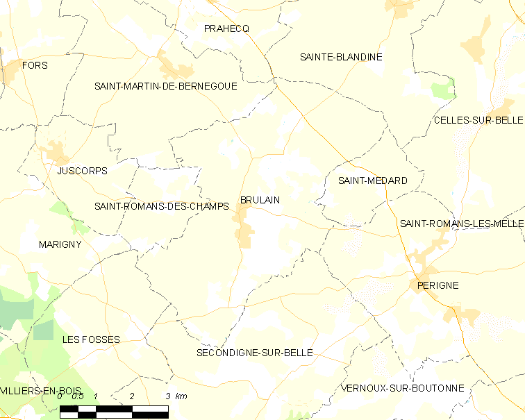 Map of French municipality Brûlain